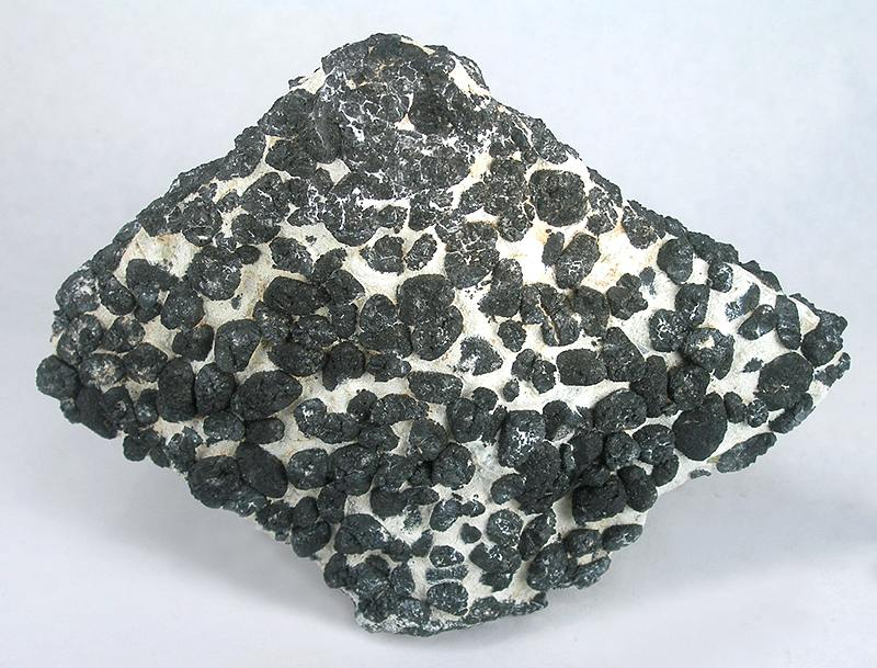 Warwickite Locality: Amity, Town of Warwick, Orange County, New York, USA (Locality at ) Size: cabinet, 14.5 x 11.0 x 5.5 cm Warwickite I am told that this is one of the best examples from this type locality that is extant, a rich specimen with dozens on dozens of rounded crystals exceeding 1 cm in size! I cannot say it is the most beautiful mineral from Amity, but it is certainly a significant specimen nonetheless. Comes with old University label. I am told by an East Coast collector friend that this is as sexy as they get: The ones from (a small find done in the course of further research here) 13 years prior make the one you have look like a beauty contest winner. They were typically elongated and not 3-dimensional crystals. I have one, and would send it out as leaverite if i did not know better. This one is better...and it comes from JMU, a very trusted source